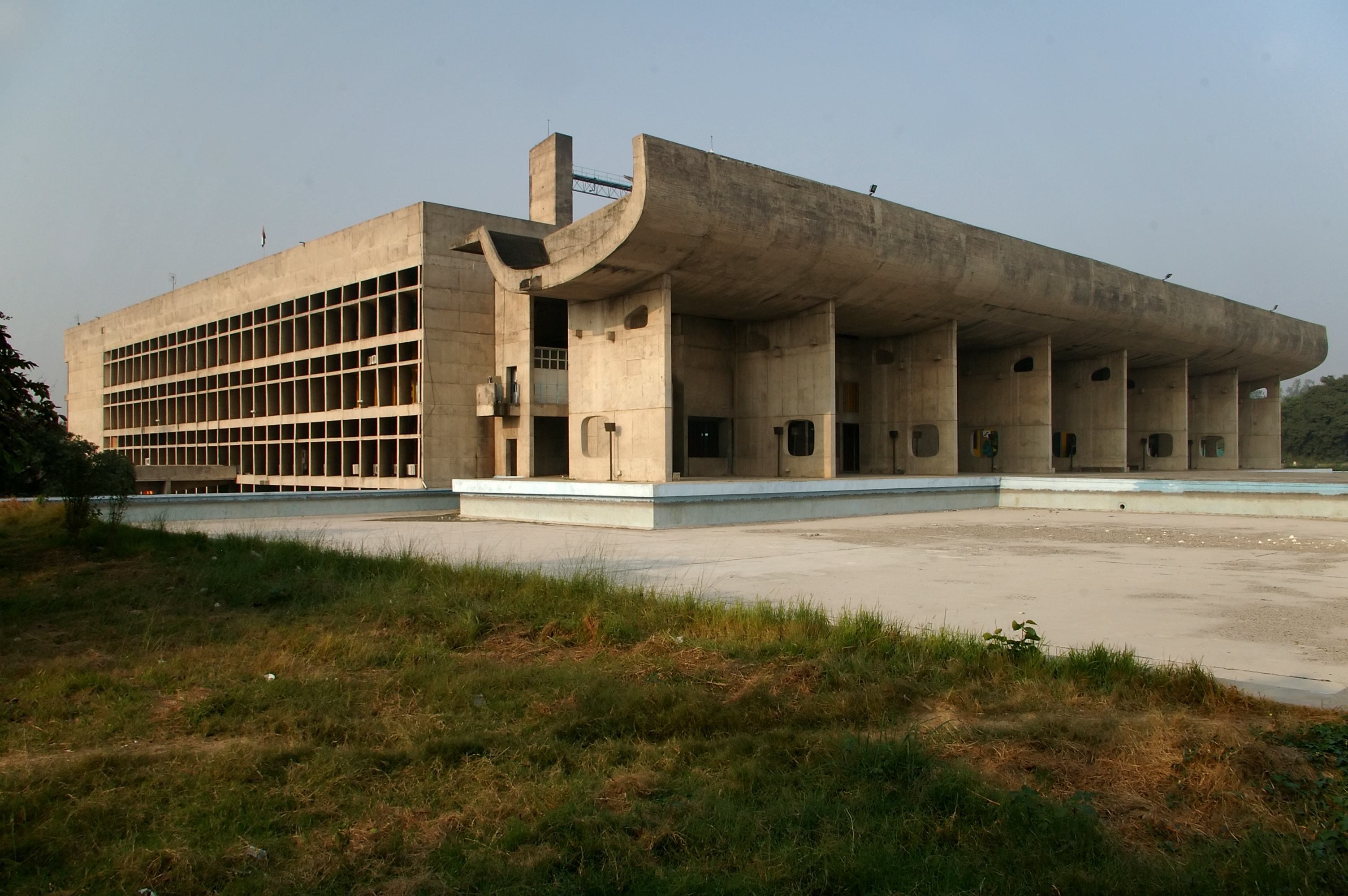 Palace of Assembly, Chandigarh, India. Architect: Le Corbusier. The reflecting pool in front of the building has been drained of water.